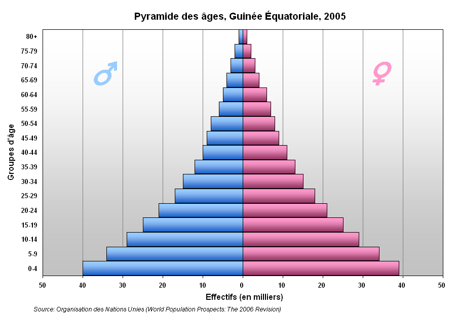 Equatorial Guinea Population pyramid, 2005